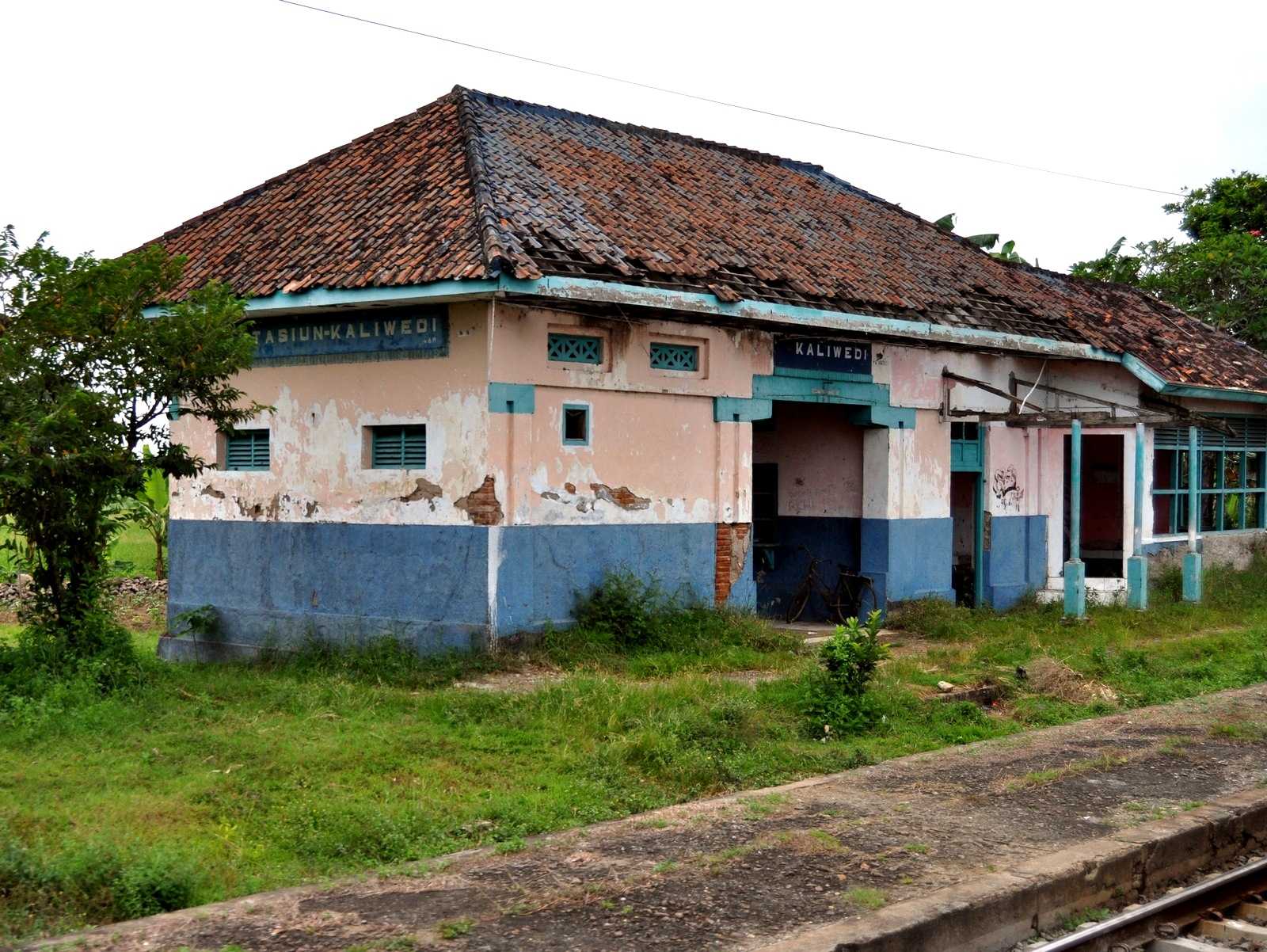 Ex Kaliwedi train station near Cirebon, West Java, Indonesia